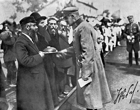 Photograph shows Jews from Dęblin greeting Marshal Józef Piłsudski after the arrival of Polish troops in Dęblin, 1920 (during the Polish Soviet War)